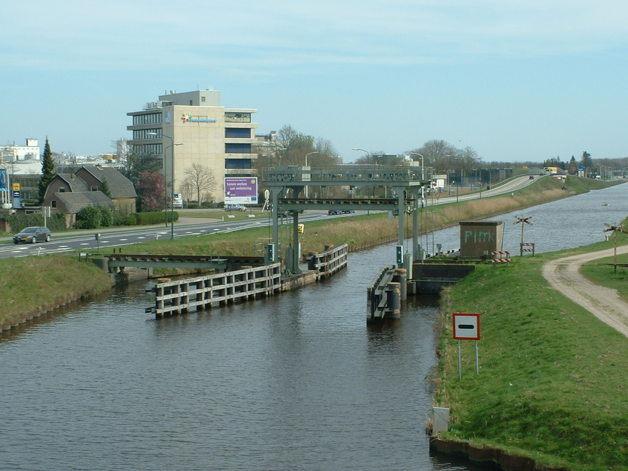 Vertical-lift bridge for railway line Boxtel-Wesel, crossing the Zuid-Willemsvaart canal at Veghel